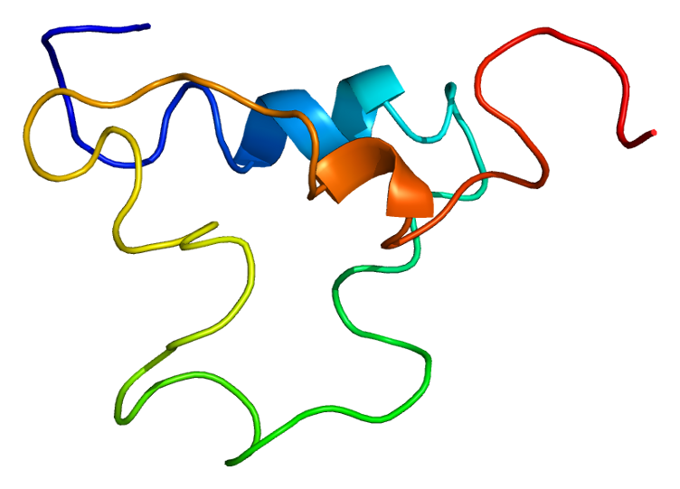 Structure of the IGF1 protein. Based on PyMOL rendering of PDB 1bqt.